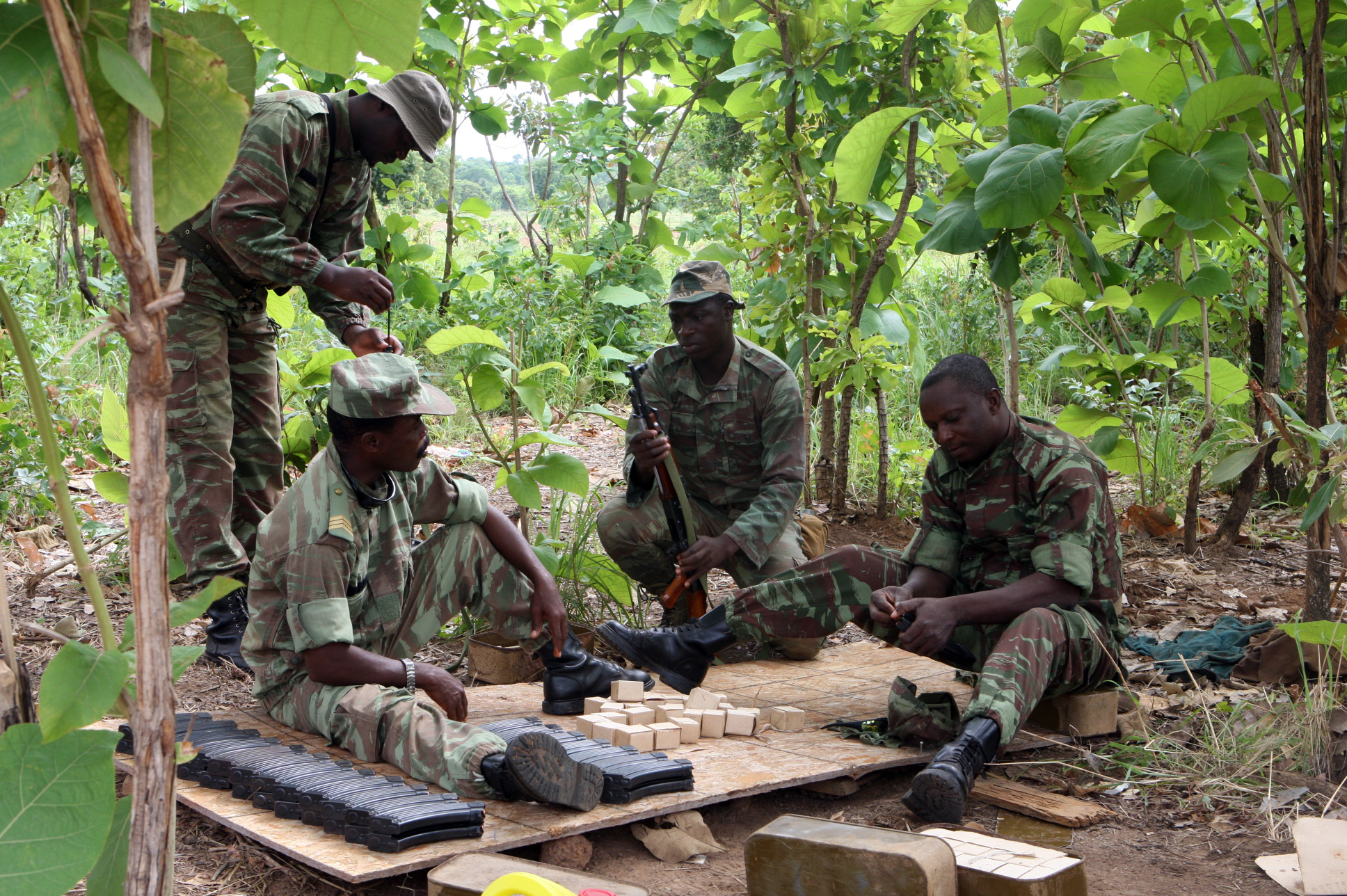 Soldiers with 3rd Company, Beninese Army check ammunition and weapons on range 2 at the Center of Military Information Bembèrèkè, Benin, June 12, 2009, during Exercise Shared Accord. The exercise is a scheduled combined U.S.-Benin military exercise that includes humanitarian and civil affairs projects. VIRIN: 090612-M-8213R-009